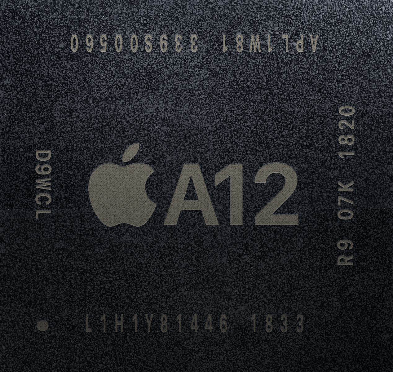 Illustration of the Apple A12 system-on-a-chip. Inspiration found here